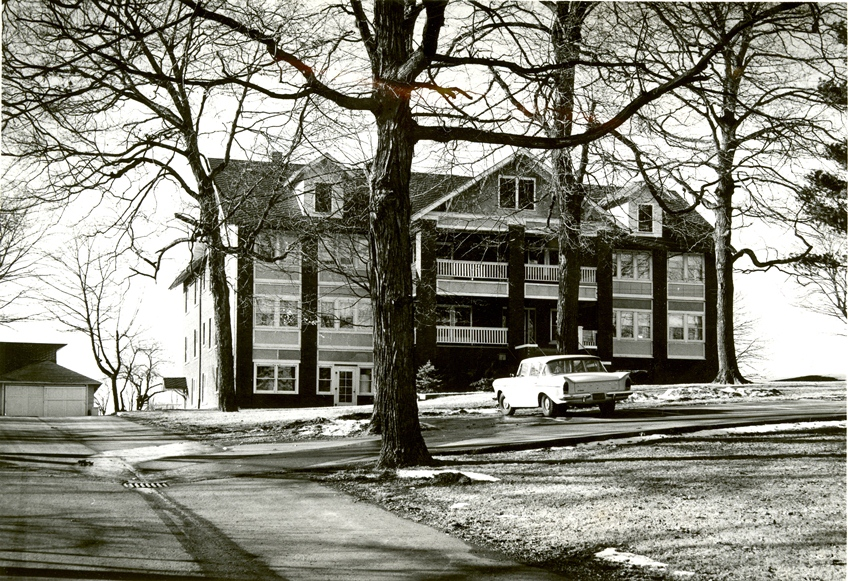 Caption: April 1, 1961. Maple Lawn Homes. Citation: Mennonite Board of Missions. Photographs. Illinois, Eureka, Home for the Aged, 1957-1961. IV-10-7.2 Box 3 Folder 73. Mennonite Church USA Archives - Goshen. Goshen, Indiana.